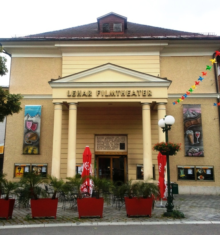 Austria, Bad Ischl, Lehartheater